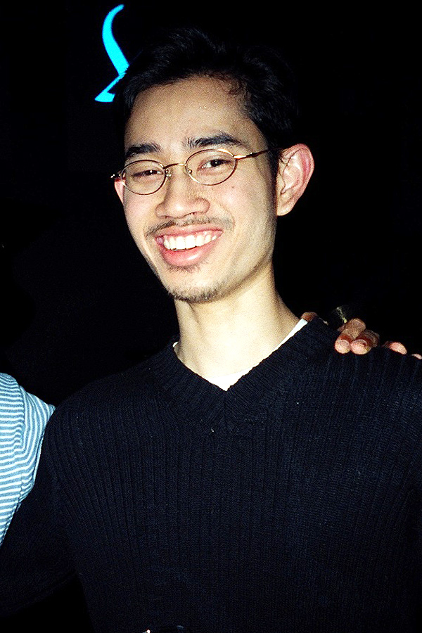 Young Jazz Pianist of Indonesia, Nial Djuliarso, in Singapore 2002